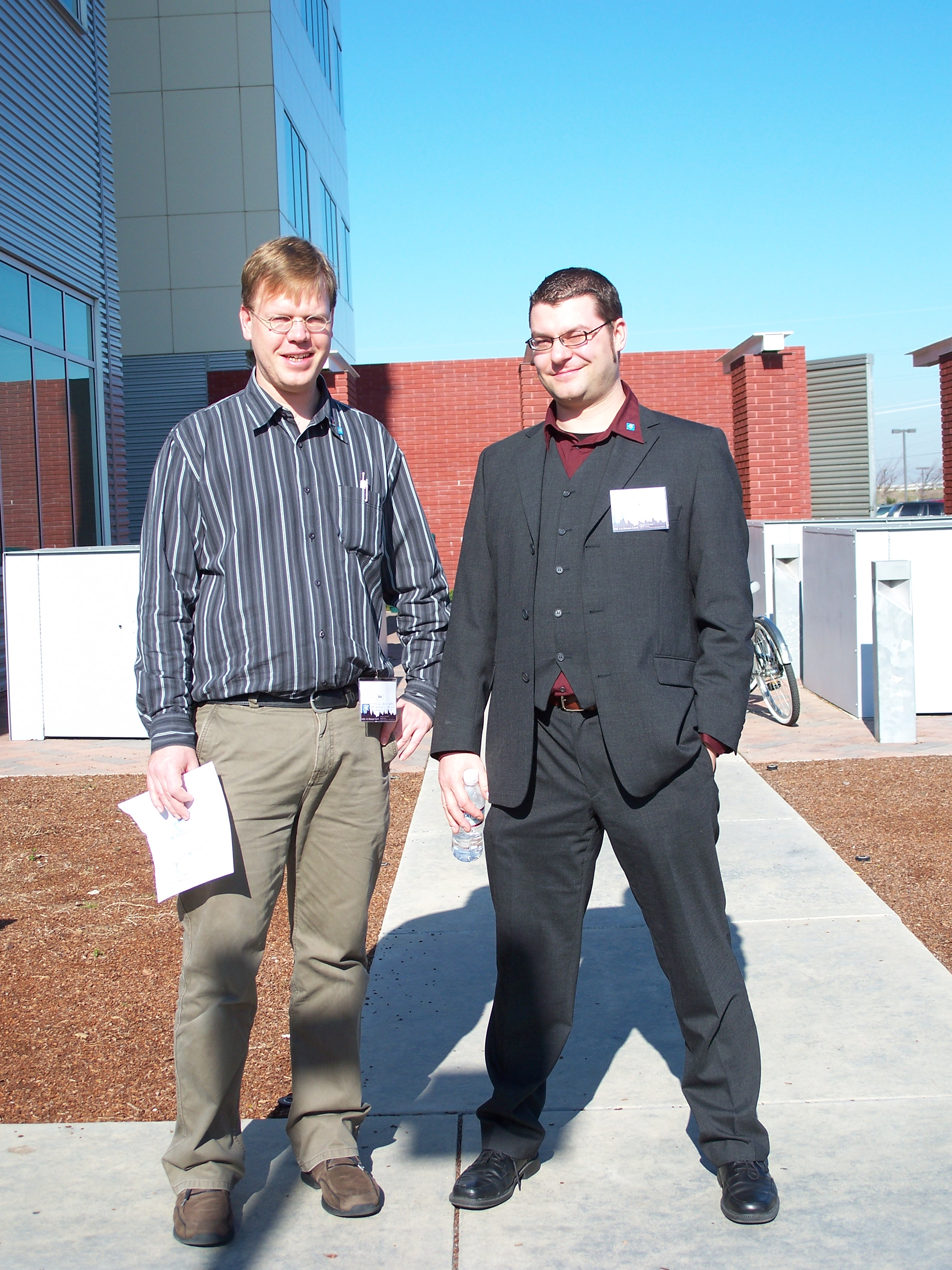 Adriaan de Groot (left) and Sebastian Kügler (right) on KDE 4.0 release event. Google campus, Mountain View, California, USA